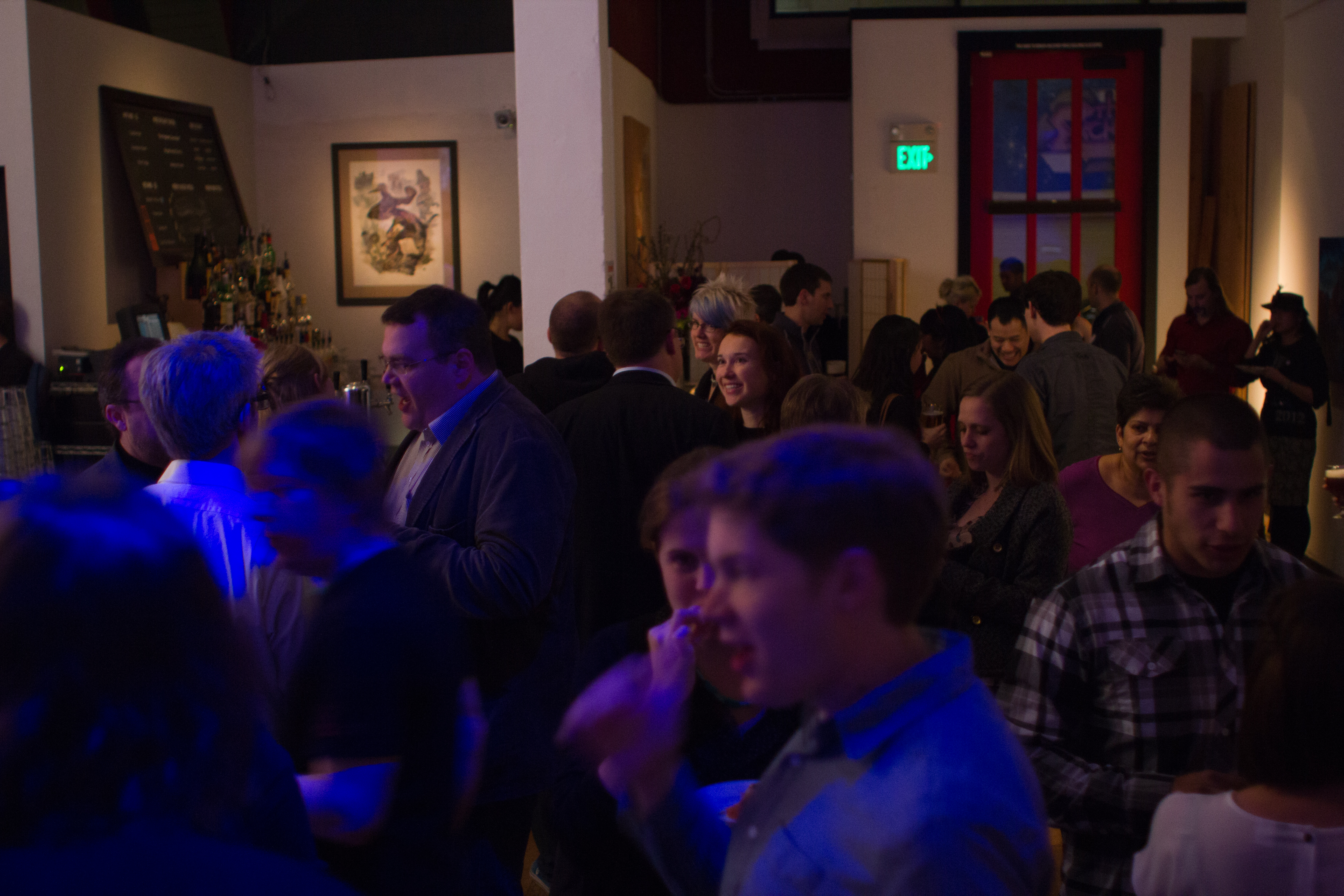 Post-Sopa Blackout Party for Wikimedia Foundation staff